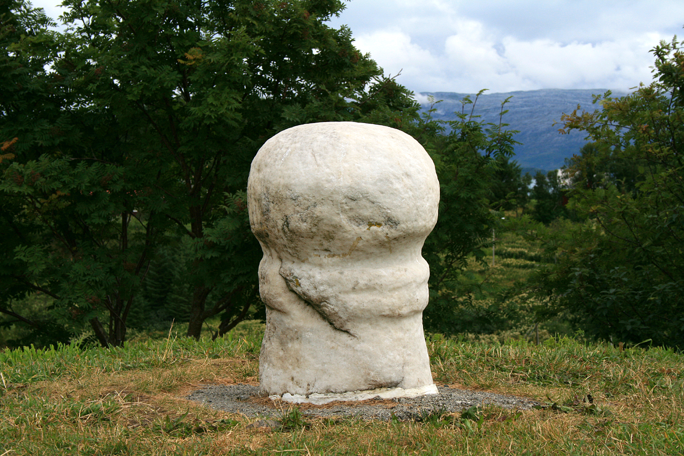 The Dønna phallus; marble sculpture at Dønna, Nordland, Norway. 4th - 6th C. Height: 89 cm, diameter 50 cm.